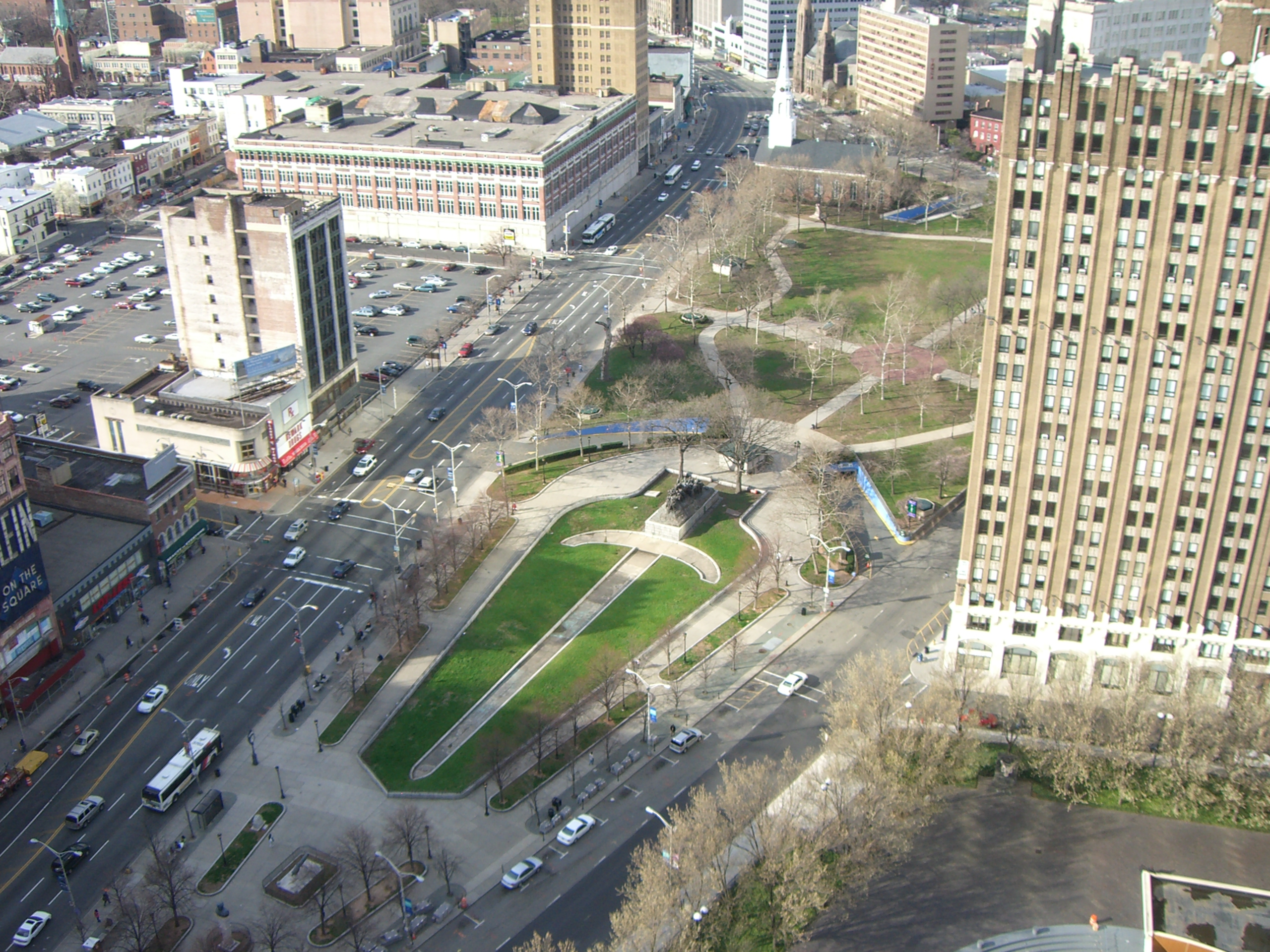 Birds eye view of Military Park, facing north from above Raymond Blvd.